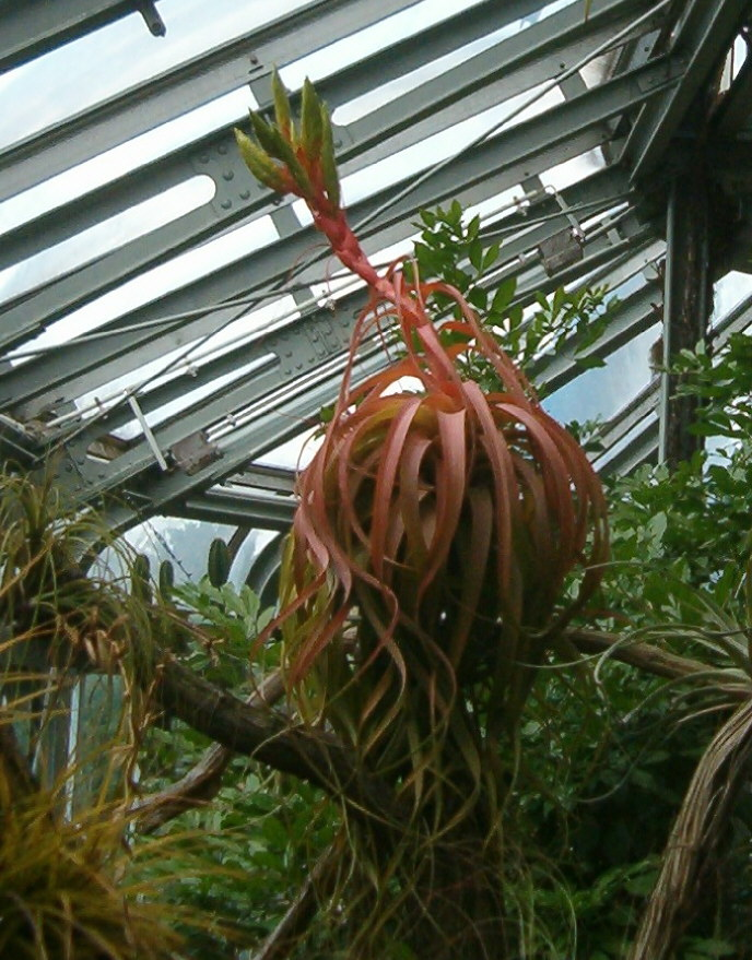 At Botanical Gardens Berlin-Dahlem Species Tillandsia roland-gosseliniii